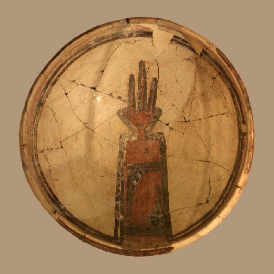 Pecos Glazeware Bowl, labelled as serpent design, Pecos National Historical Park From the ruins of the Pecos Pueblo in in San Miguel County, New Mexico.